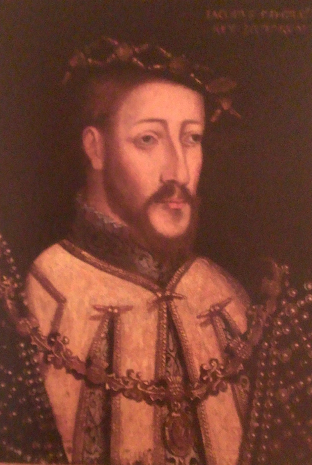 Miniature Portrait of James V from the National Portrait Gallery in Edinburgh, Scotland, United Kingdom. Painted in the 1600s. Ruled 1513-1542.